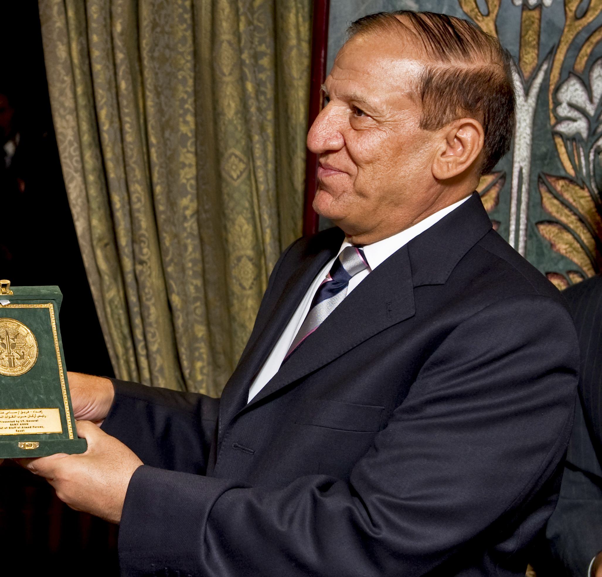 Egyptian Army Lt. Gen. Sami Enan, chief of staff of the Egyptian Armed Forces, presents an award to U.S. Navy Adm. Mike Mullen, chairman of the Joint Chiefs of Staff, in Cairo, June 7, 2011. Mullen is on a seven-day trip to the region meeting with counterparts and leaders.